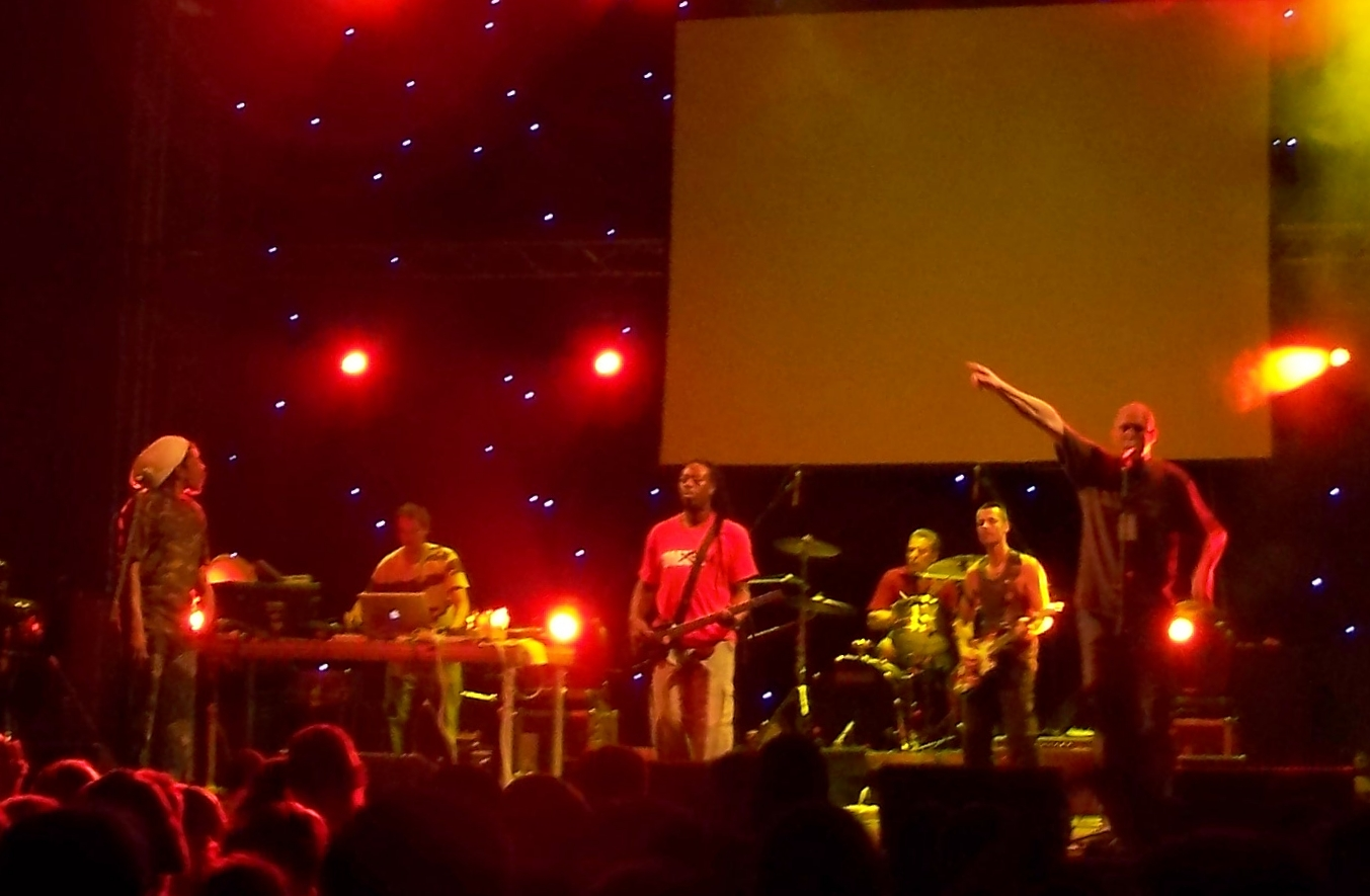 Dub/regga group Dreadzone live in Athens June 2007 for thw European Day of Music.